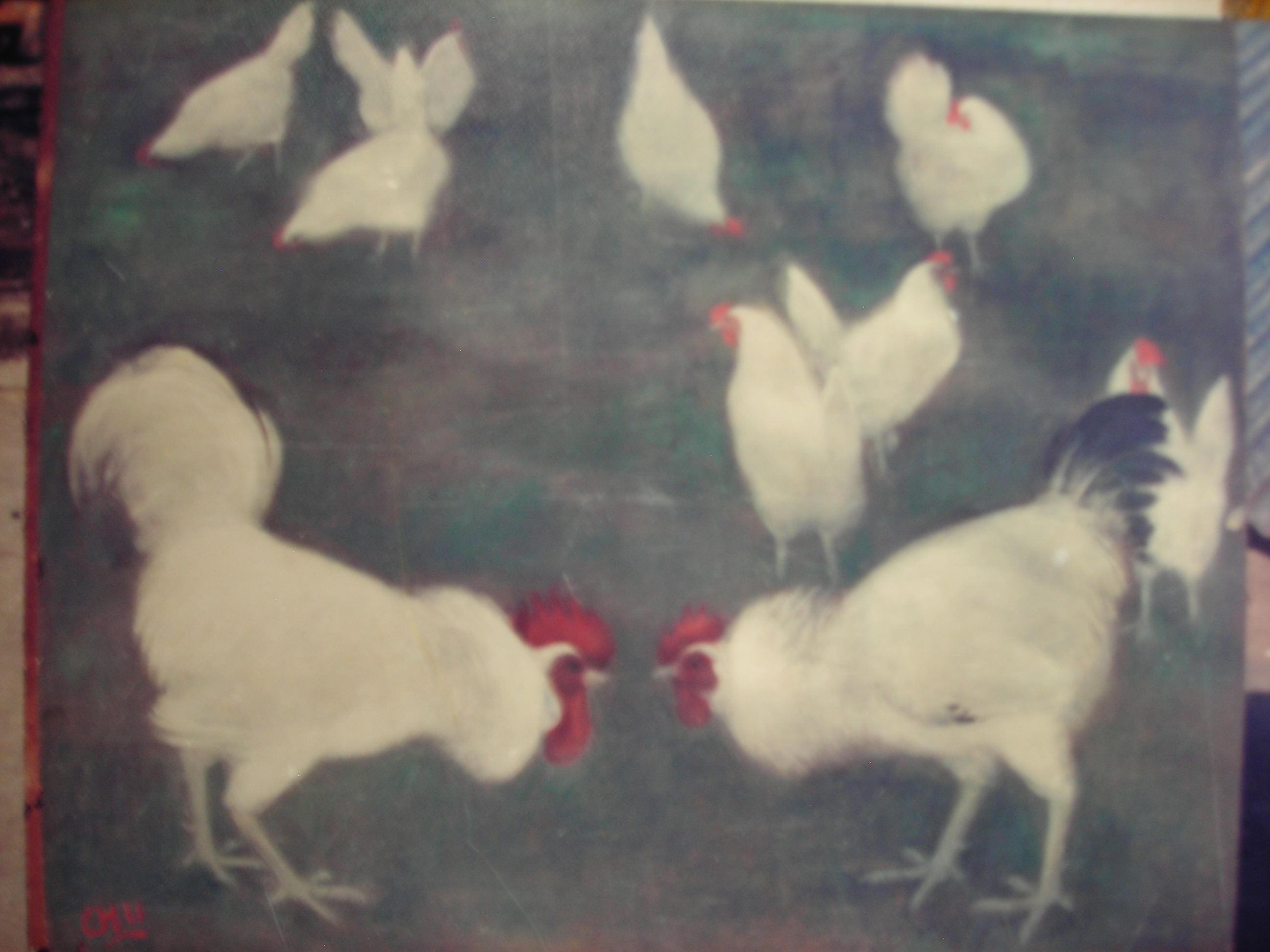 This painting is in my family's collection. Last name Gà chọi is not suitable as it is the same one of Viêtnamese article Gà Chọi (Fighting coqs)